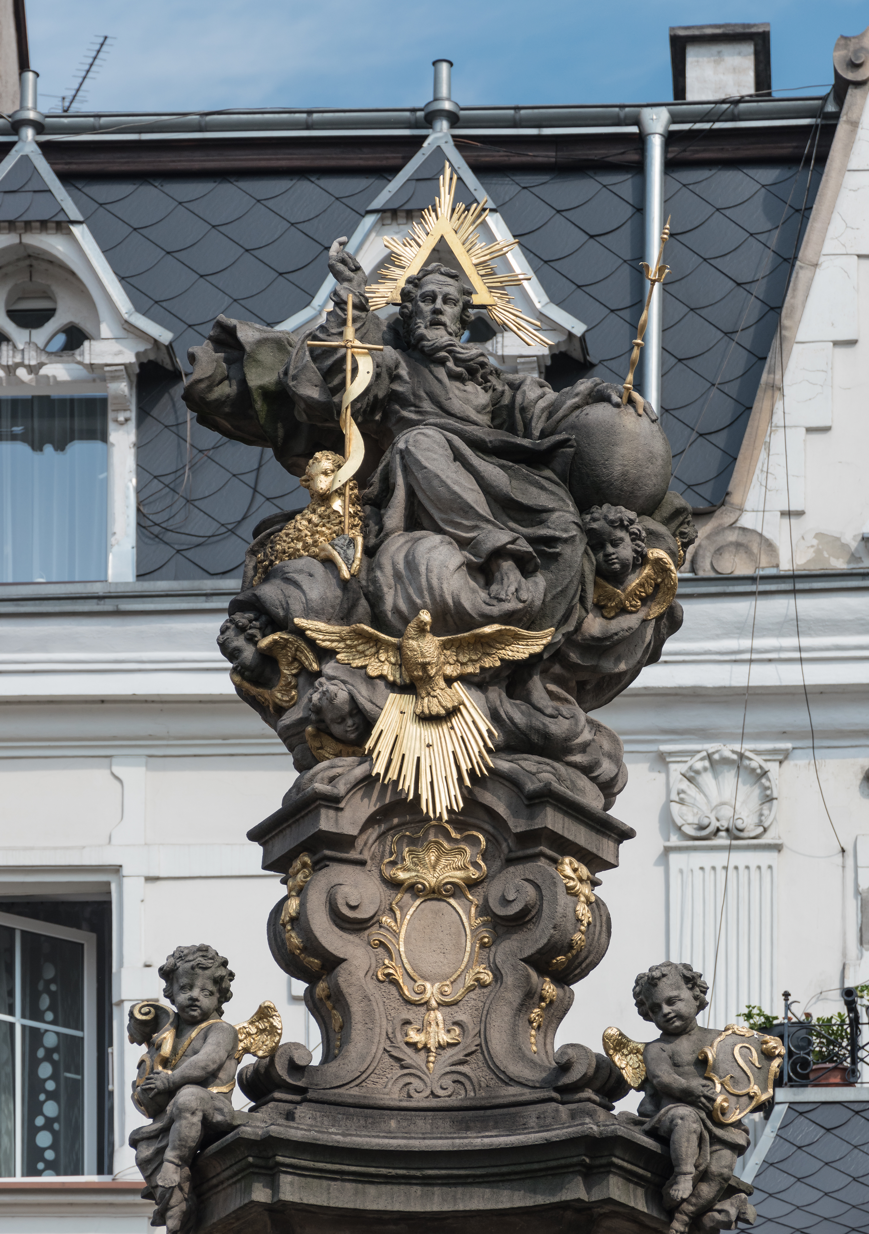 Trinity Column in Bystrzyca Kłodzka, Holy Trinity